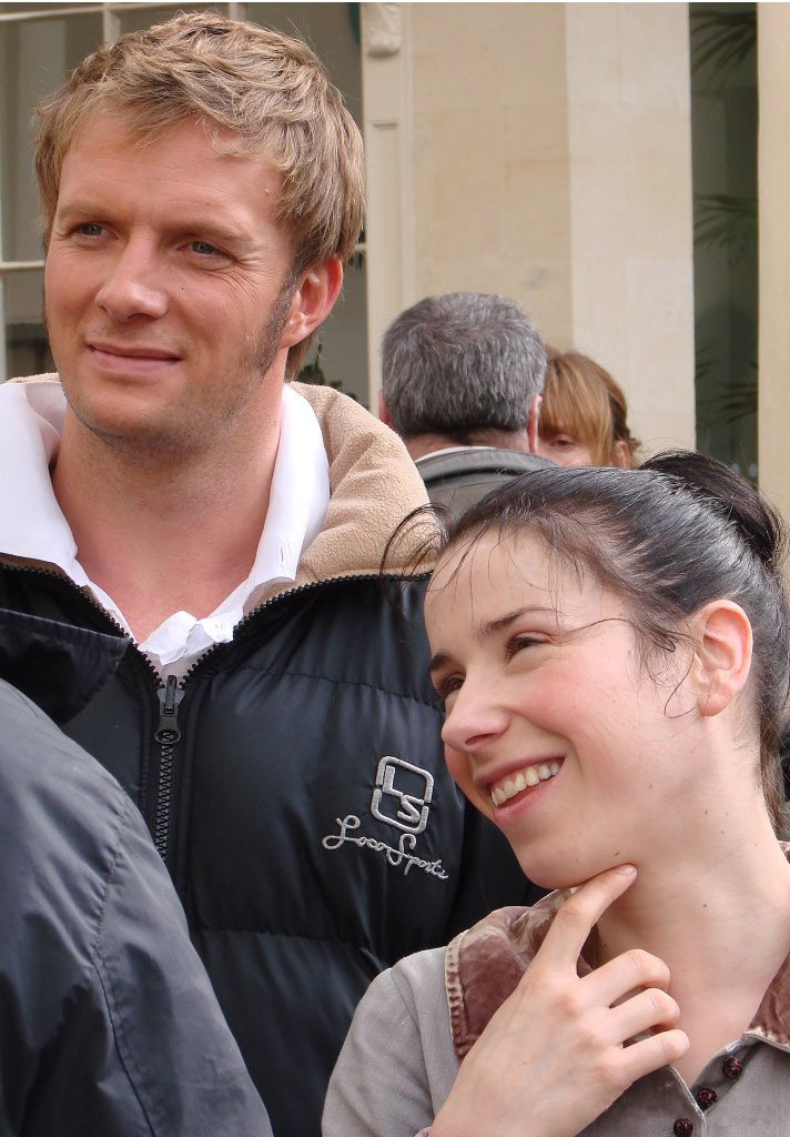 Rupert Penry-Jones and Sally Hawkins in the 2007 movie Persuasion. Photographed on location in Bath, England.